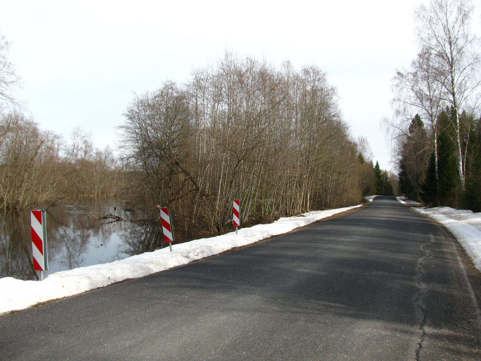 Pirita River near Tuhala, spring high water